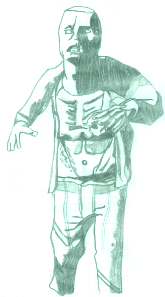 Drawing about a Civilian Zombie from Doom 3